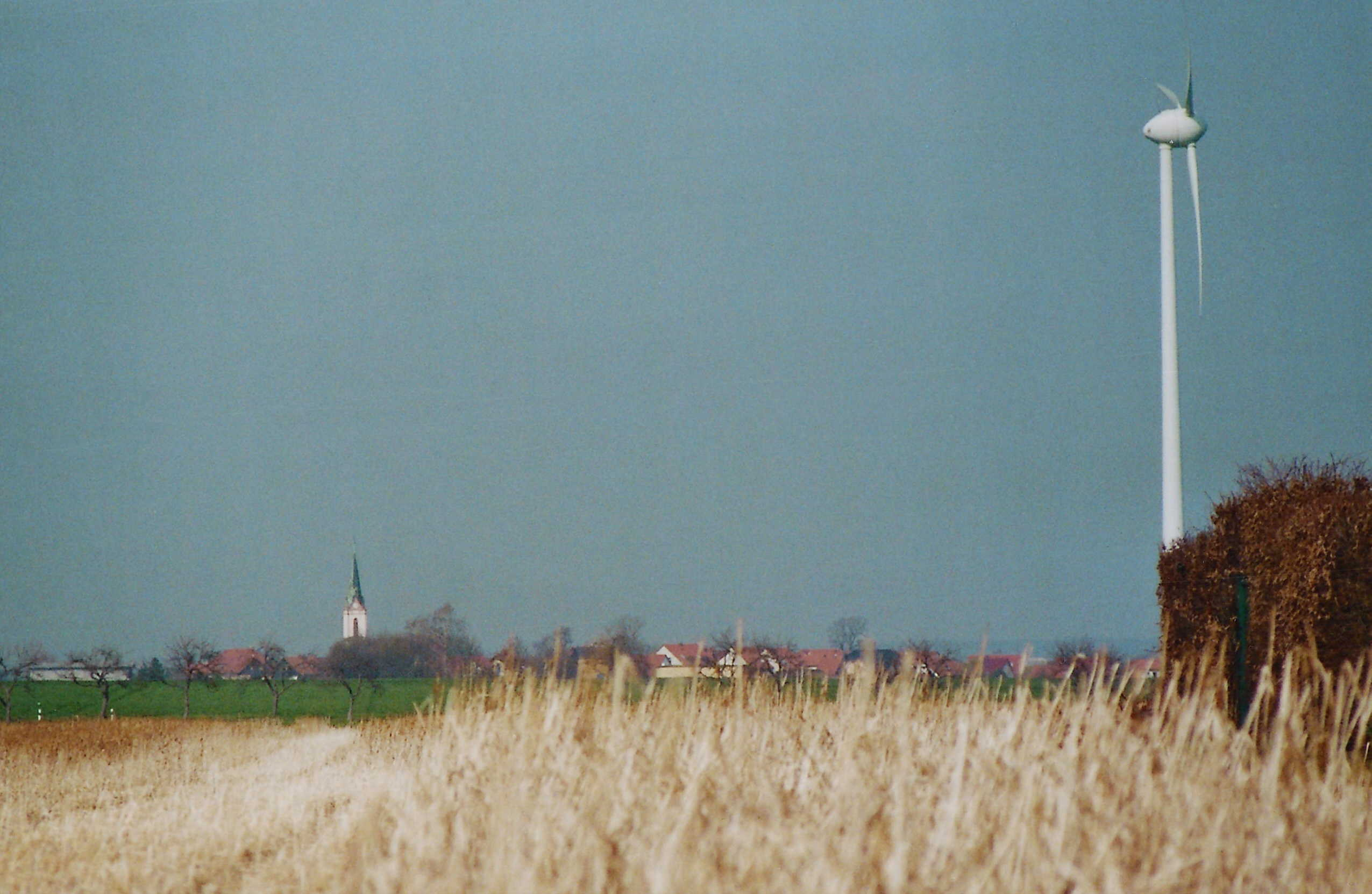 Fuchshain, part of town of Naunhof in Muldentalkreis, Saxony, Germany; own photo by Elmar J. Lordemann (User:Jo Atmon)